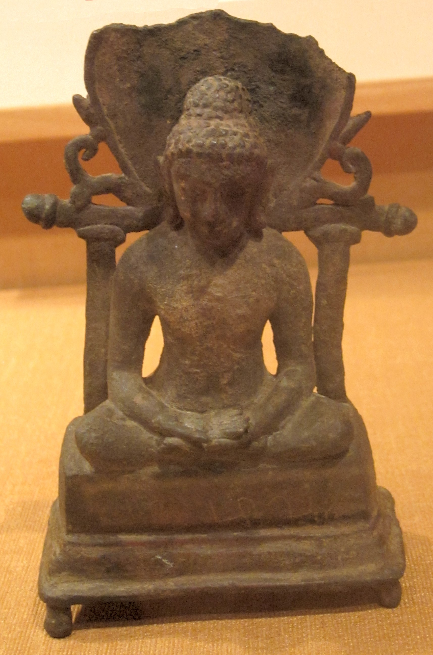 Tīrthaṅkara, India, Akota, Gujarat, 7th century, bronze, Honolulu Academy of Arts